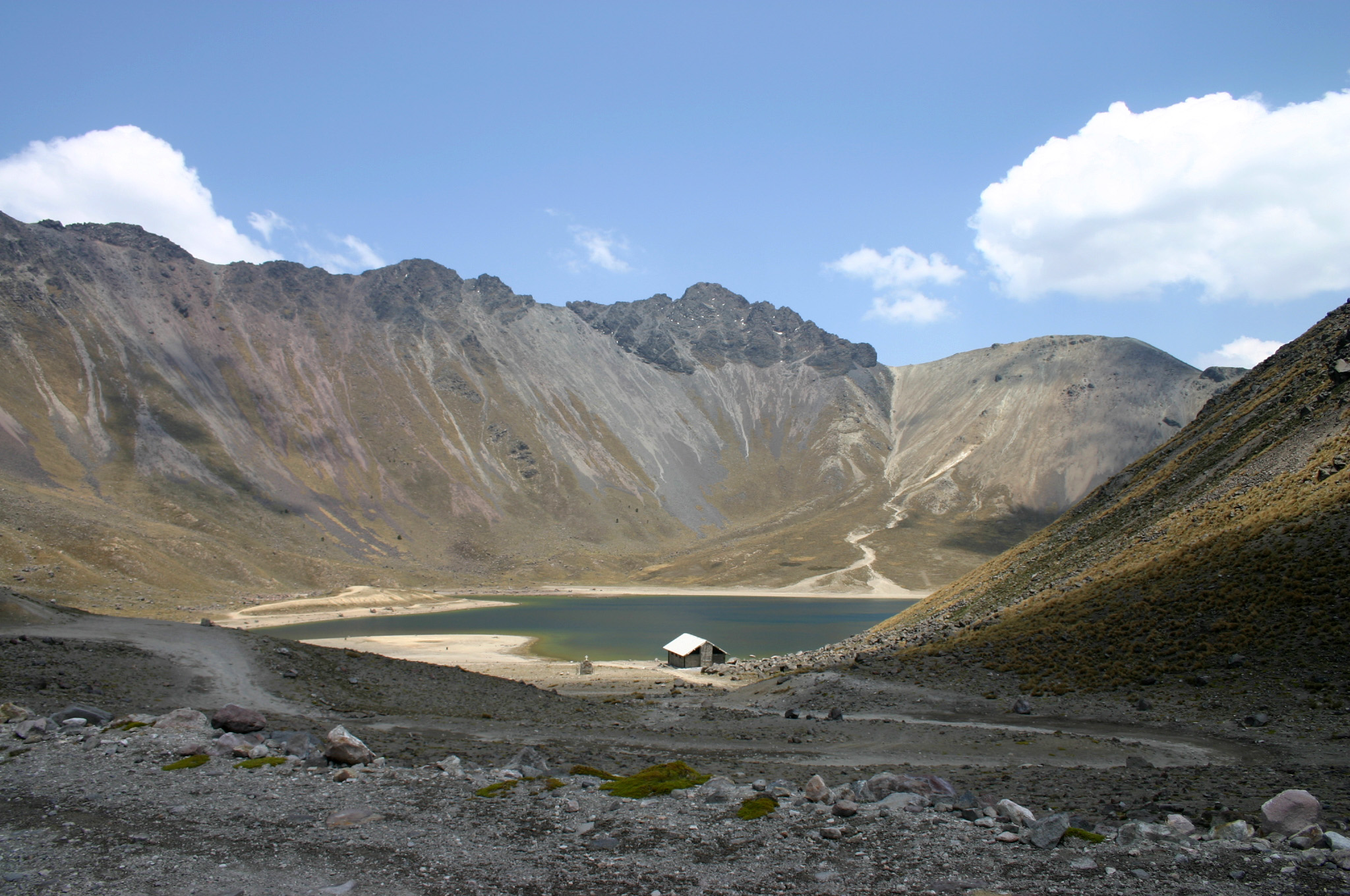 Inside the cone of the Nevado de Toluca Volcano - Lago de Sol